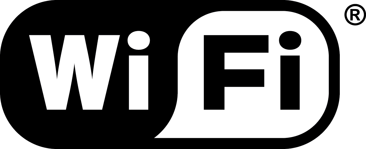 Wi-Fi Alliance's logo